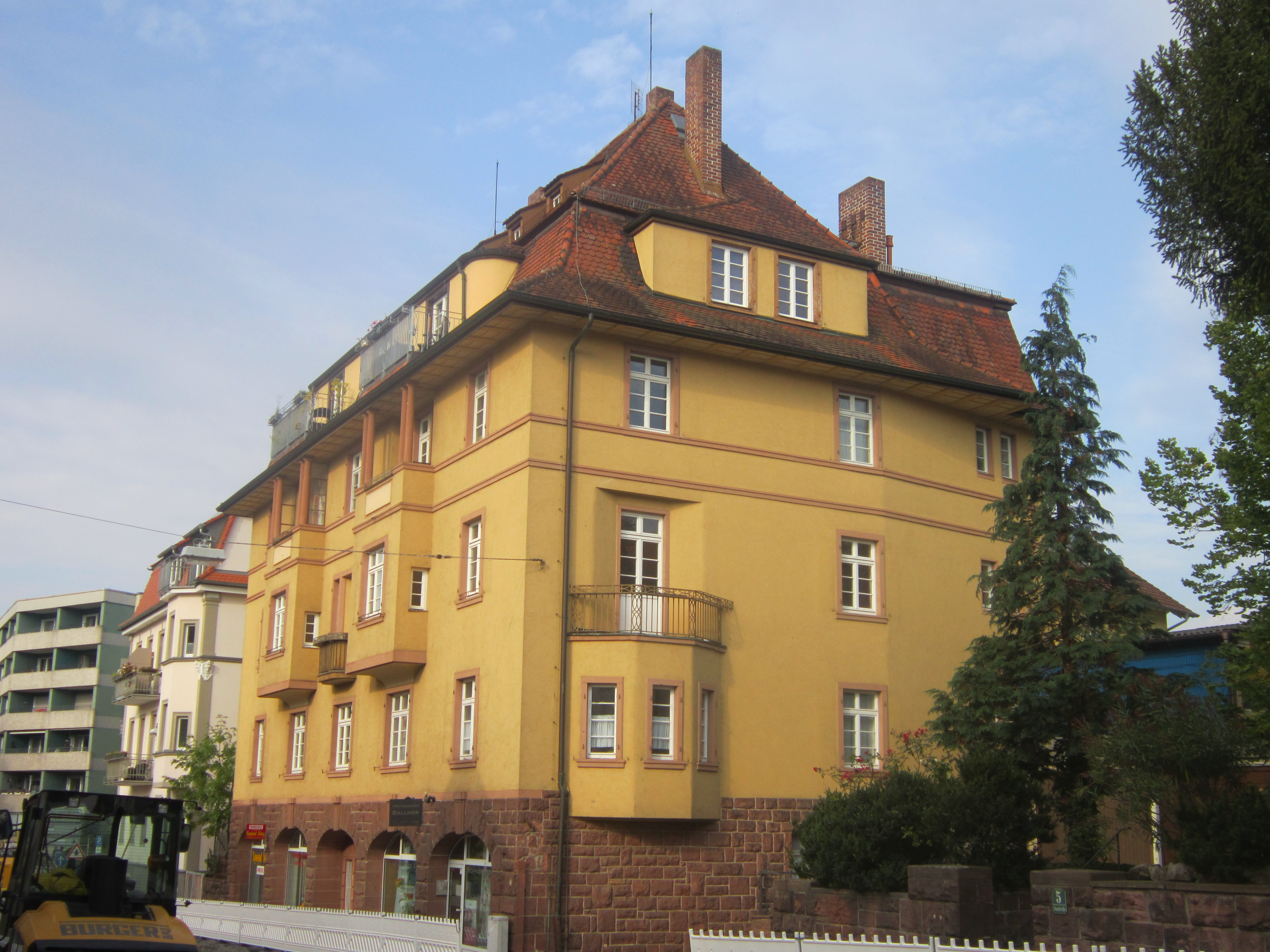 Building in the German spa town of Bad Kissingen in Lower Franconia (Bavaria) (Address: Erhardstraße 03).